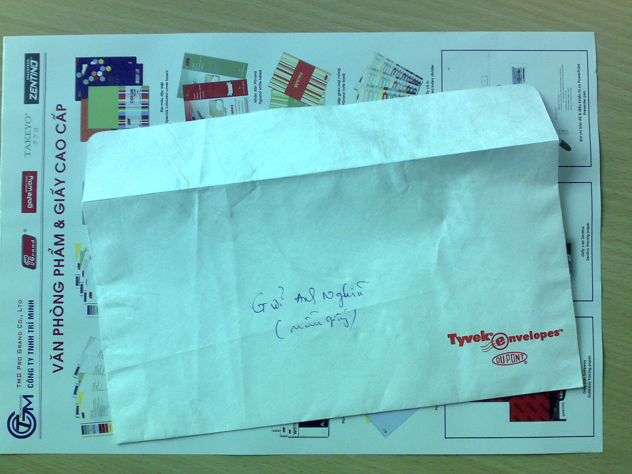 Tyvek 1056D Envelope